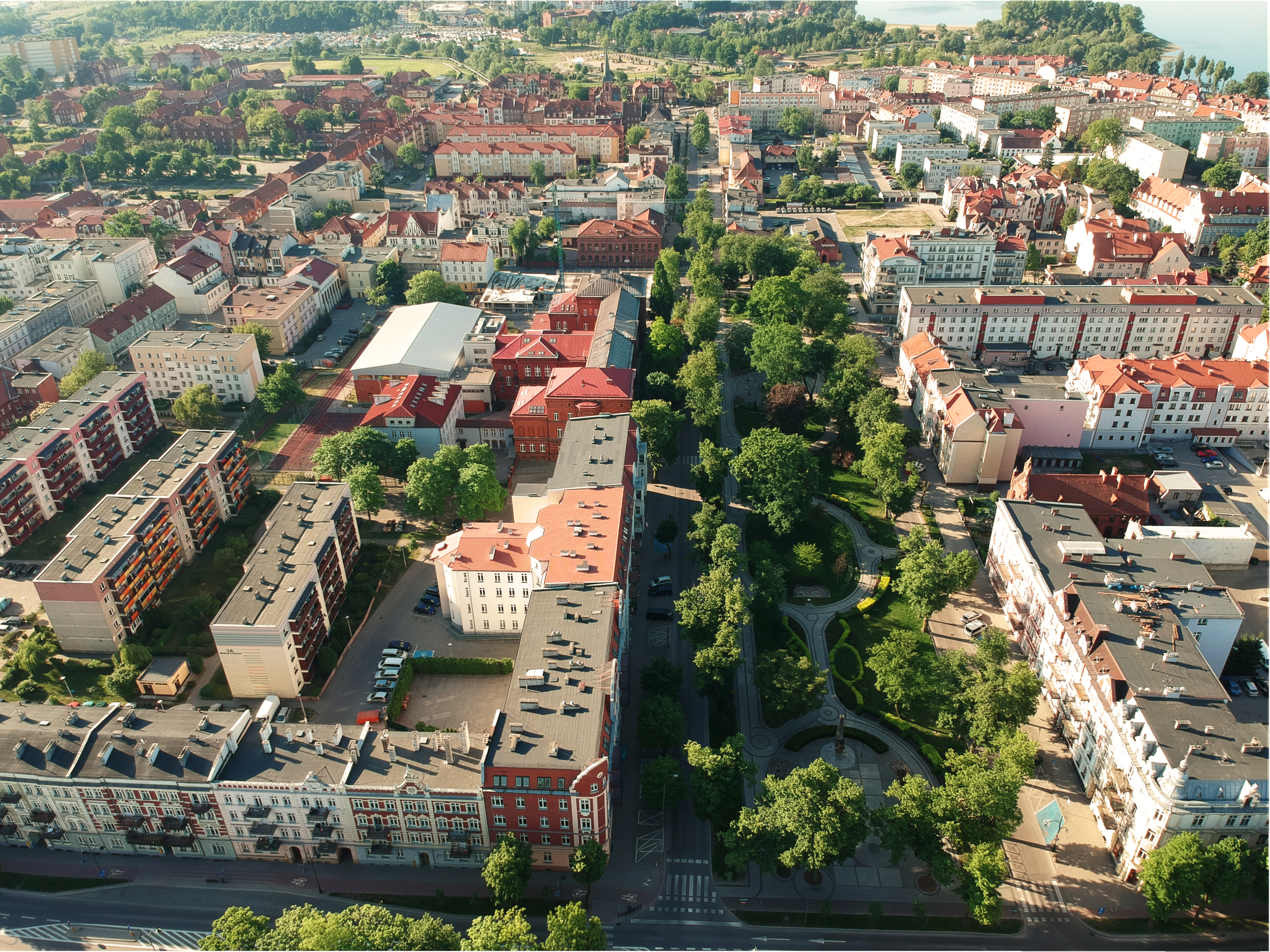 Ełk - bird's-eye view - May 2018